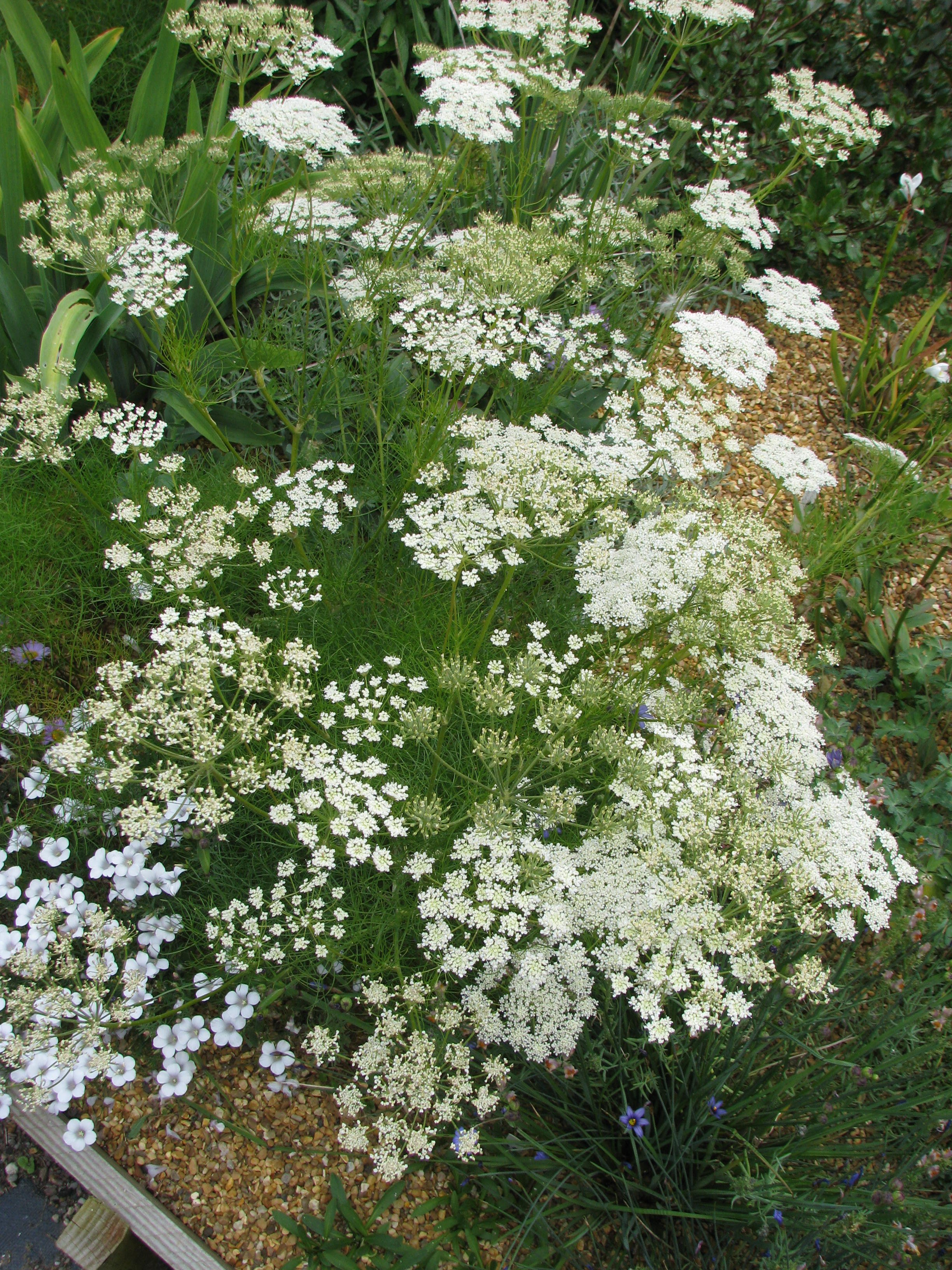 Athamanta vestina or Athamantha vestina